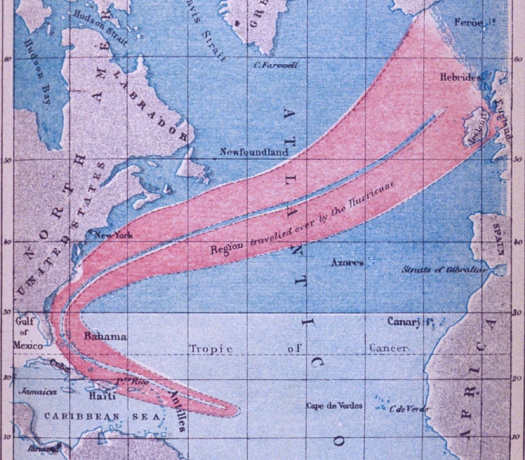 NOAA Photo Library Originally from 1873 work The Ocean, Atmosphere and Life by Elisee Recluse